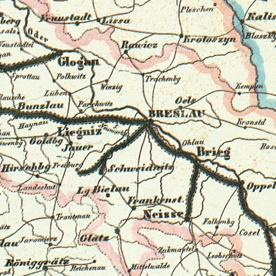 Cut of Bahnkarte_Deutschland_(und Nachbargebiete) 1849, (i.e.: Railroad Map of Germany and Neighbouring Regions in 1849) showing the Wroclaw and the part of Lower-Silesia region.